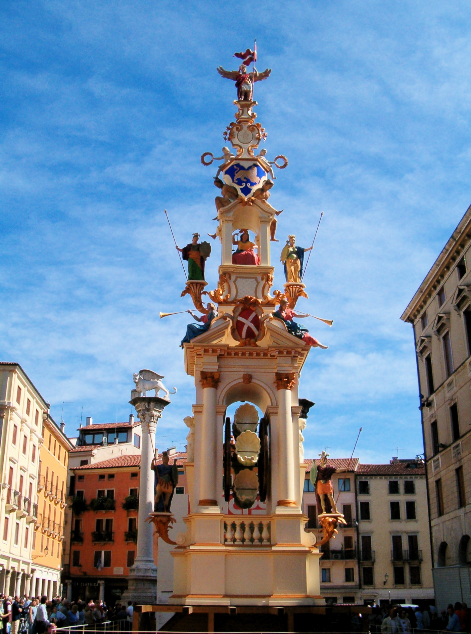 La Rua (reconstruction) in Piazza dei Signori, Vicenza.